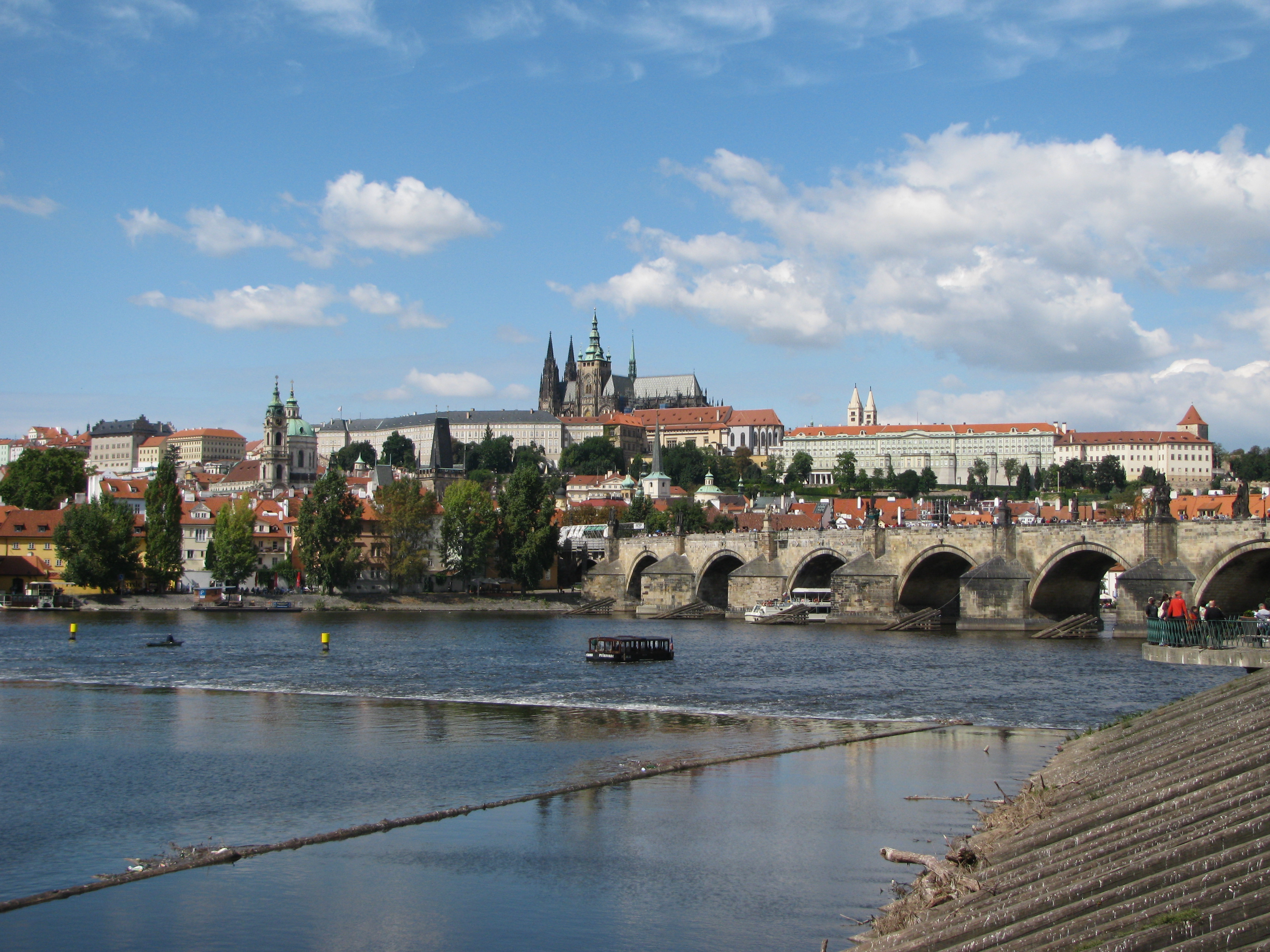 Prague Castle and Charles Bridge from Smetanovo nábřeží Street, Prague, Czech Republic.